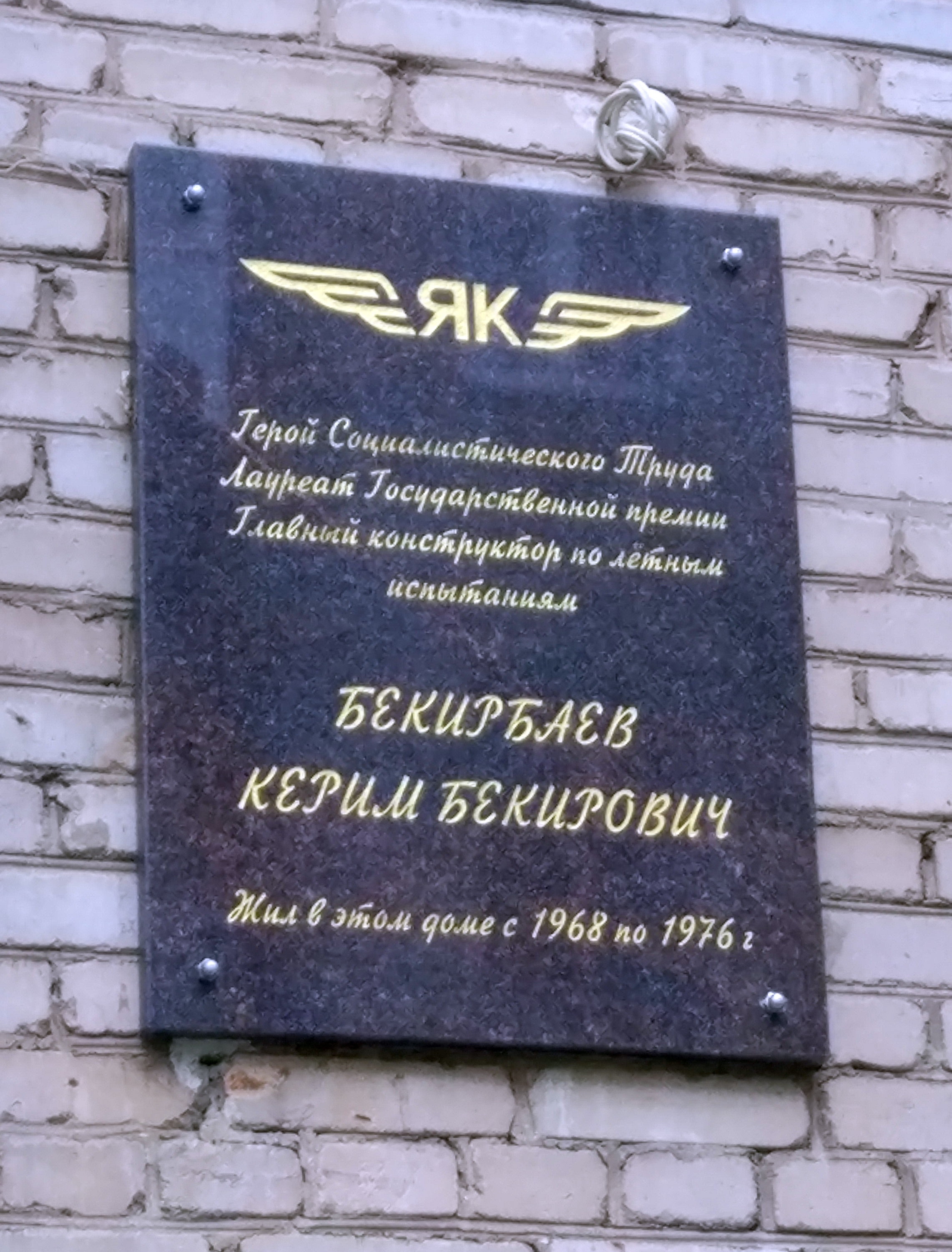 The memorial plate is installed on the wall of an apartment house at 13, Chkalova Street in Zhukovsky City, where Bekirbaev lived from 1968 to 1976